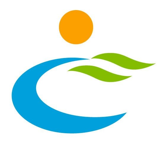 Tokigawa Saitama chapter